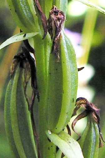 Fruits of Platanthera bifolia. Moscow region, Russia.